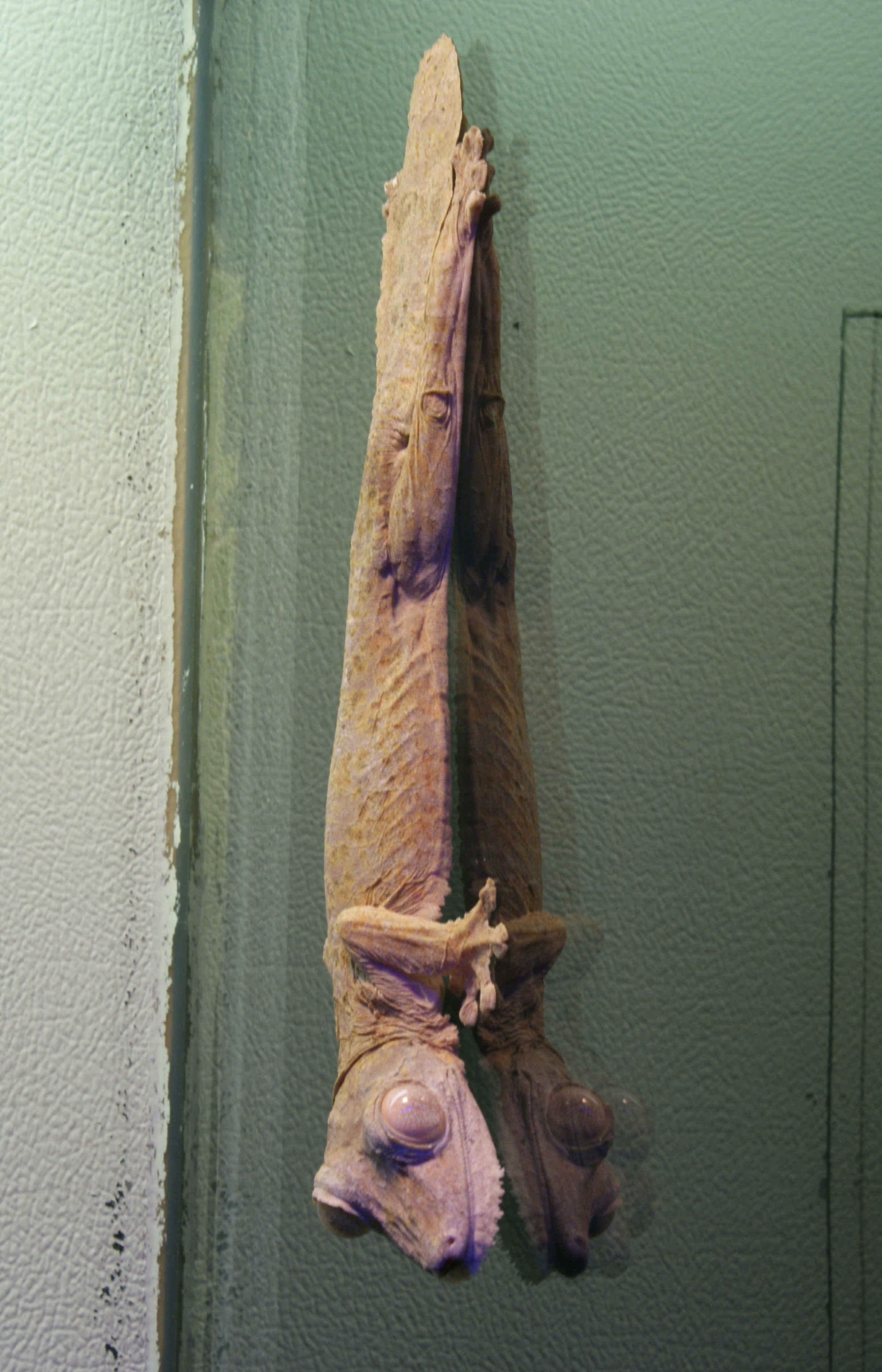 Giant leaf-tail gecko Uroplatus fimbriatus clinging to glass